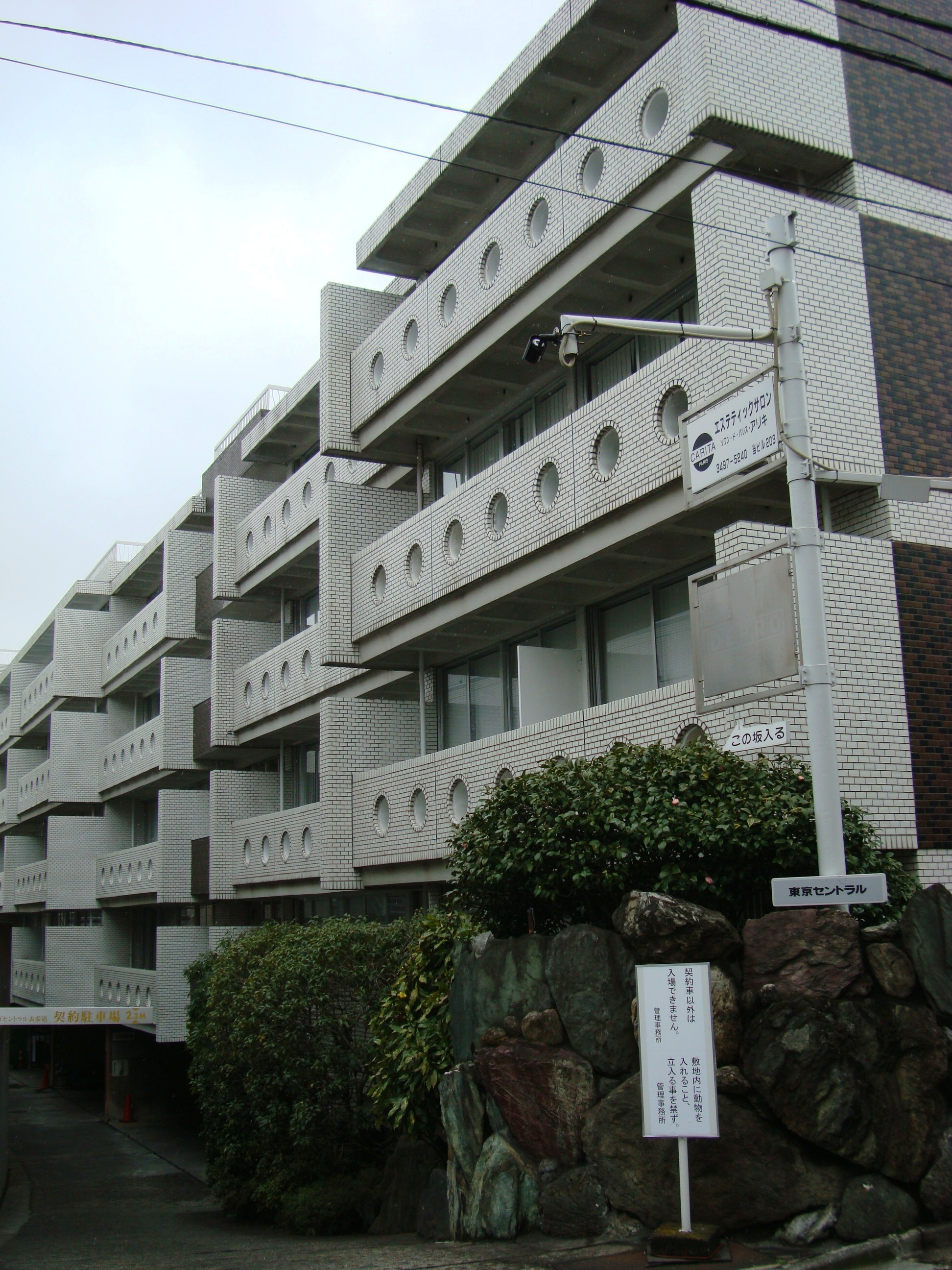 The Tokyo Omotesando Central Biru building, Harajuku, Tokyo